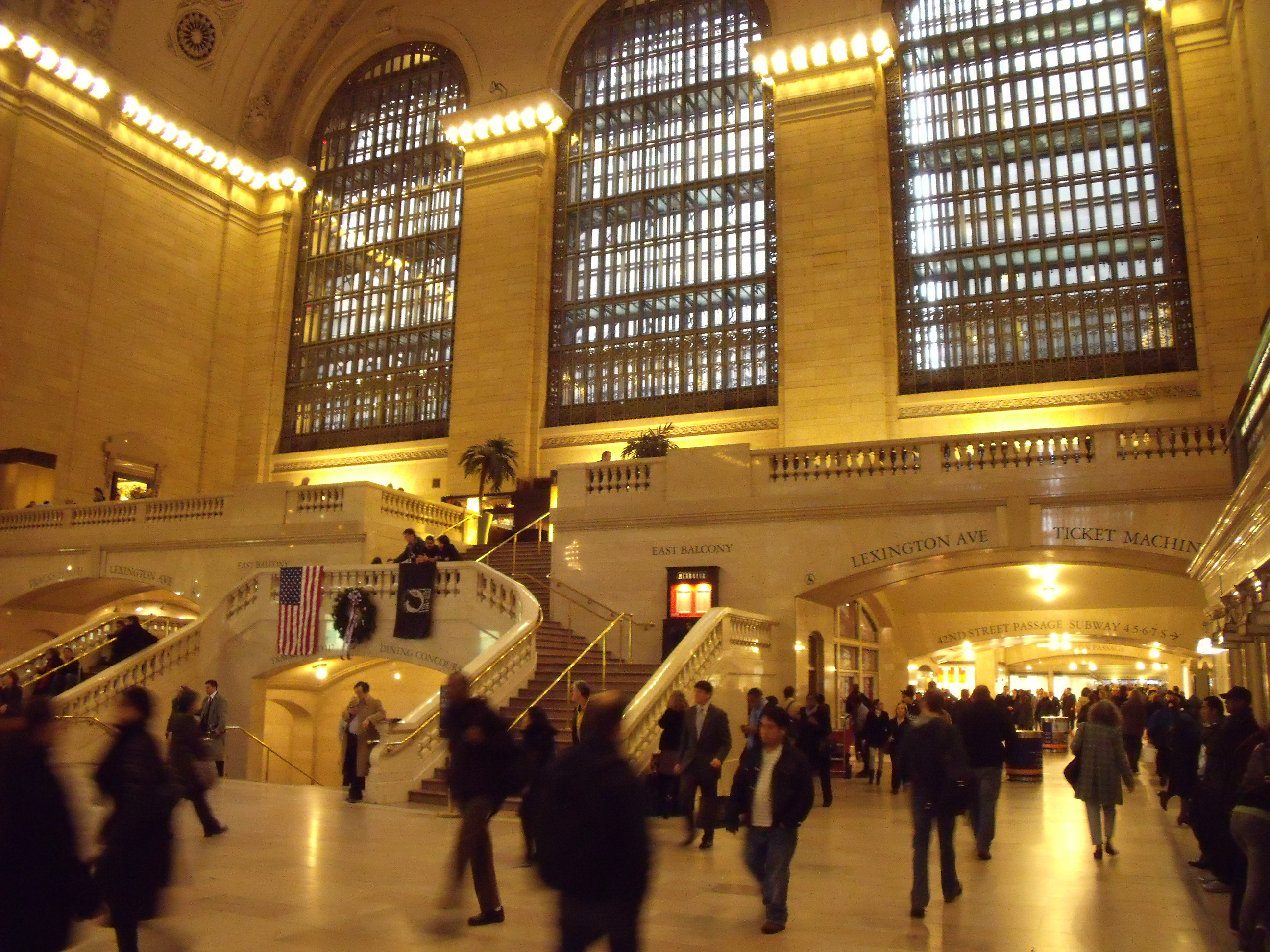 Grand Central Terminal on a weekday morning.